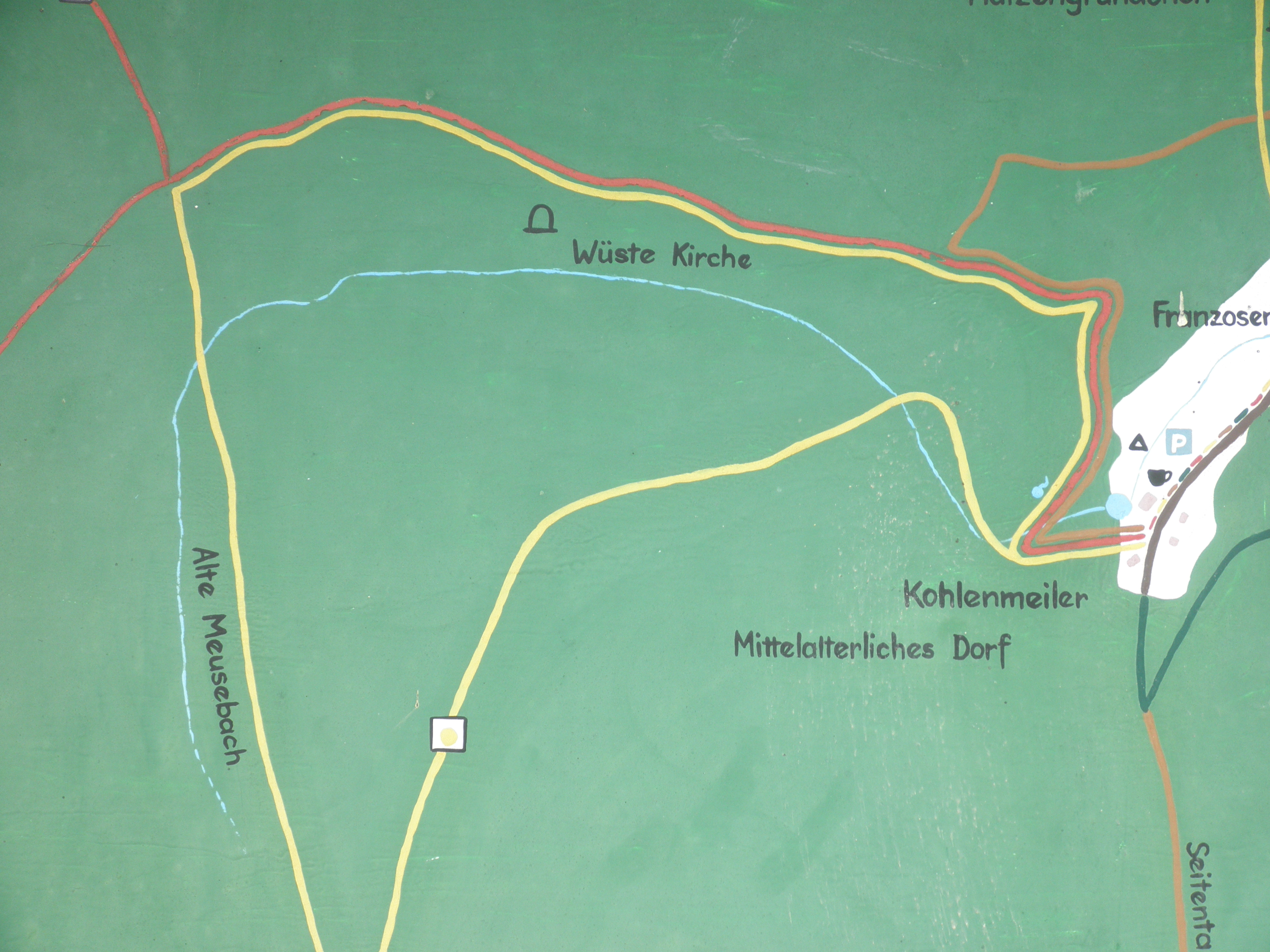 Deserted Church near Meusebach in Thuringia